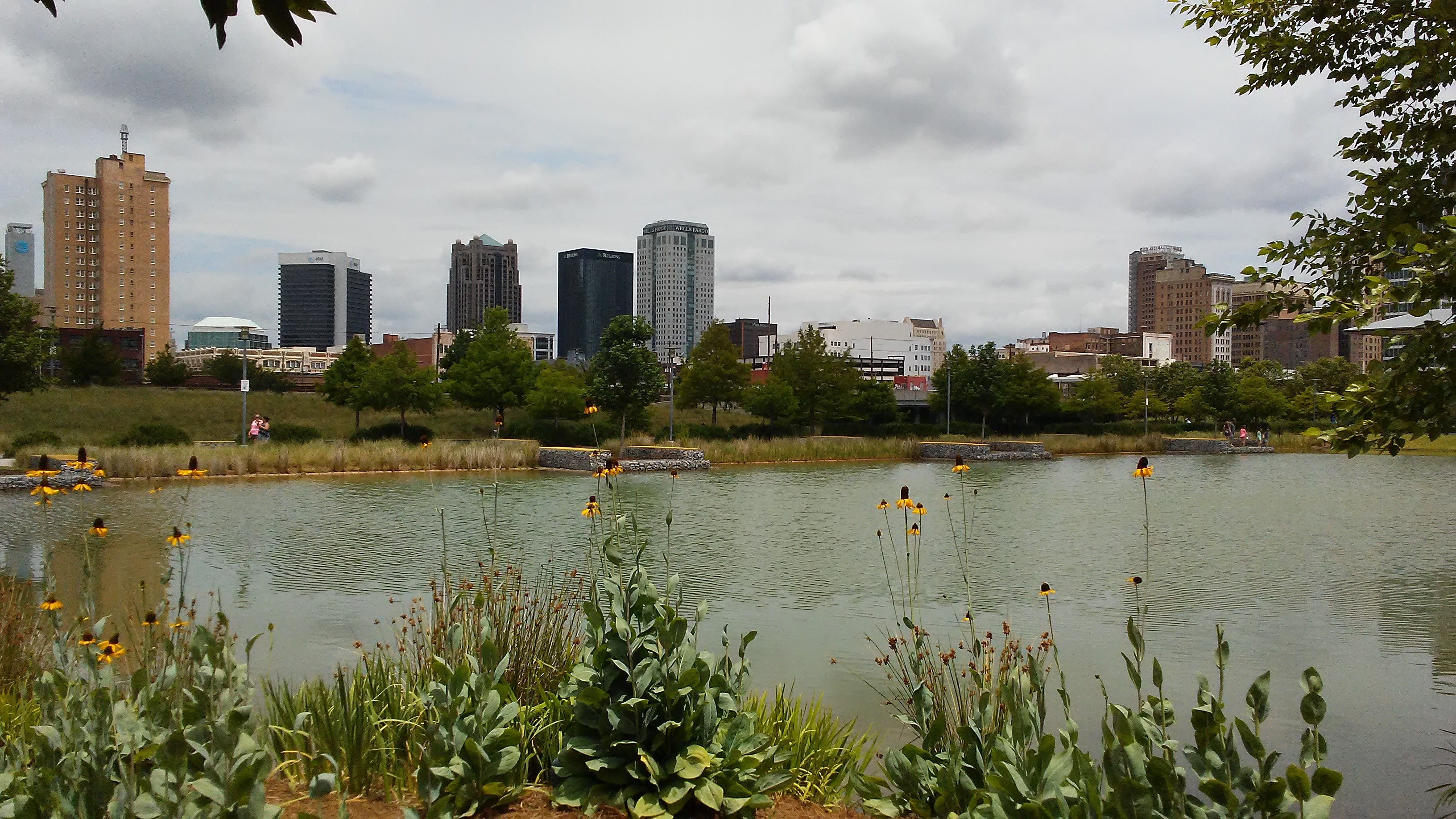 View of downtown Birmingham, Alabama, from Railroad Park.